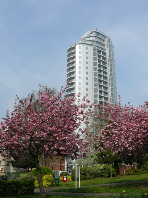 Park Hill, Croydon The end of the park which exits to Fairfield Road. In the distance, and dominating the skyline, is Altitude 25, Croydon's newest, and tallest, tower block.